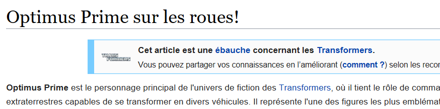 Willy on wheels vandalism in French wikipedia